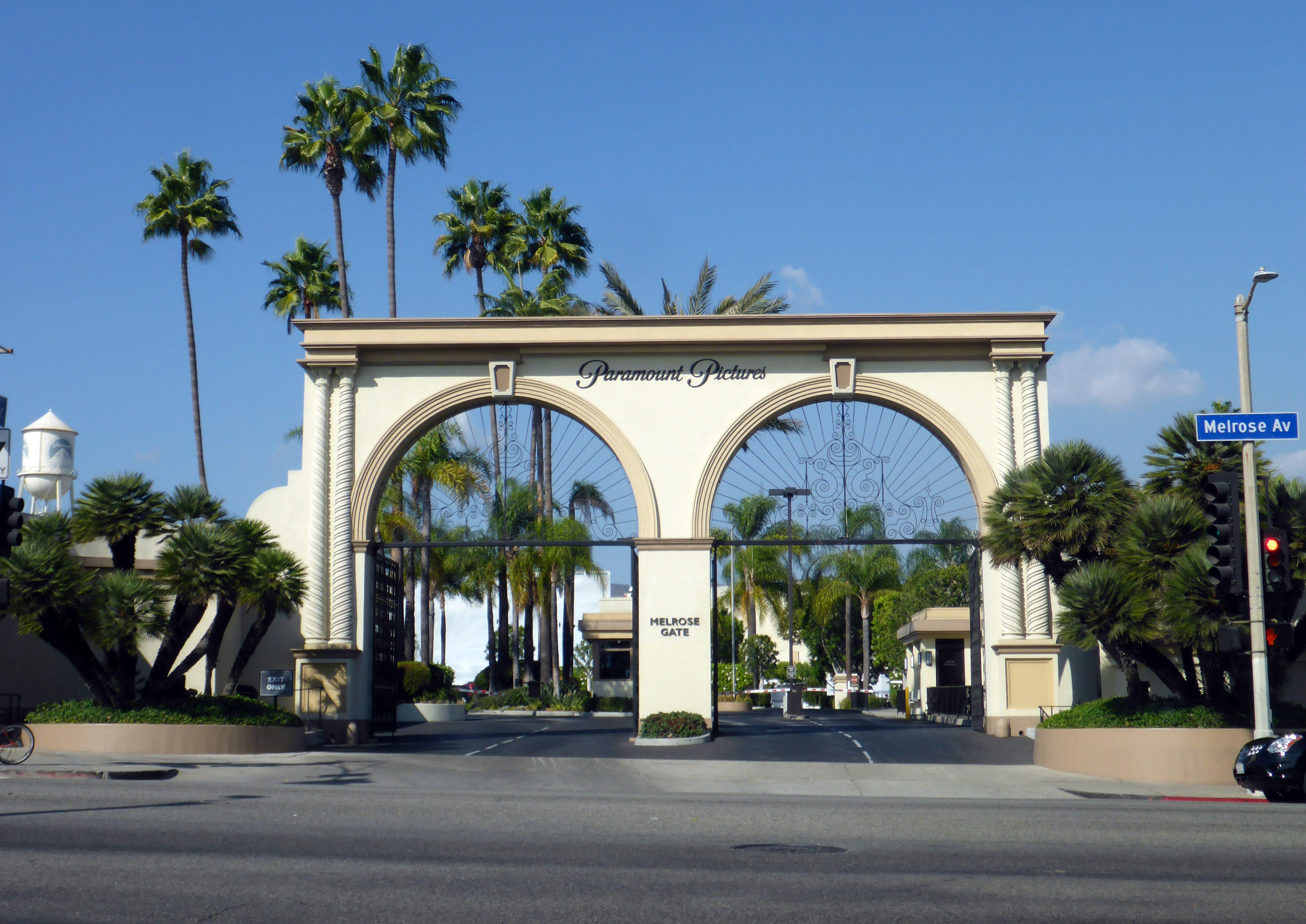 The Melrose Gate entrance to the studio lot of Paramount Pictures in the Hollywood neighborhood of Los Angeles, California. Photographed by user Coolcaesar on October 26, 2014.